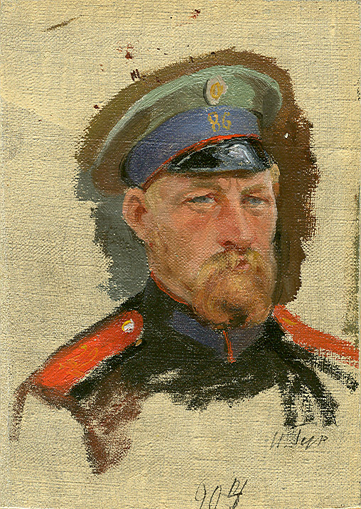 Portrait of soldier 86-th Wilmanstrand Regiment